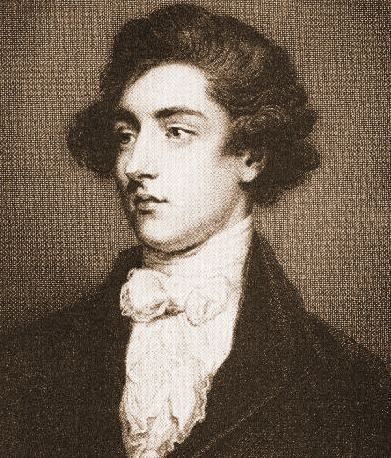 William Thomas Beckford (1 October 1760 – 2 May 1844), usually known as William Beckford, was an English novelist, art critic, travel writer and politician. He was Member of Parliament for Wells from 1784 to 1790, for Hindon from 1790 to 1795 and again from 1806 to 1820. William Thomas Beckford is the author of the Gothic novel Vathek and brainchild of the remarkable Fonthill Abbey.